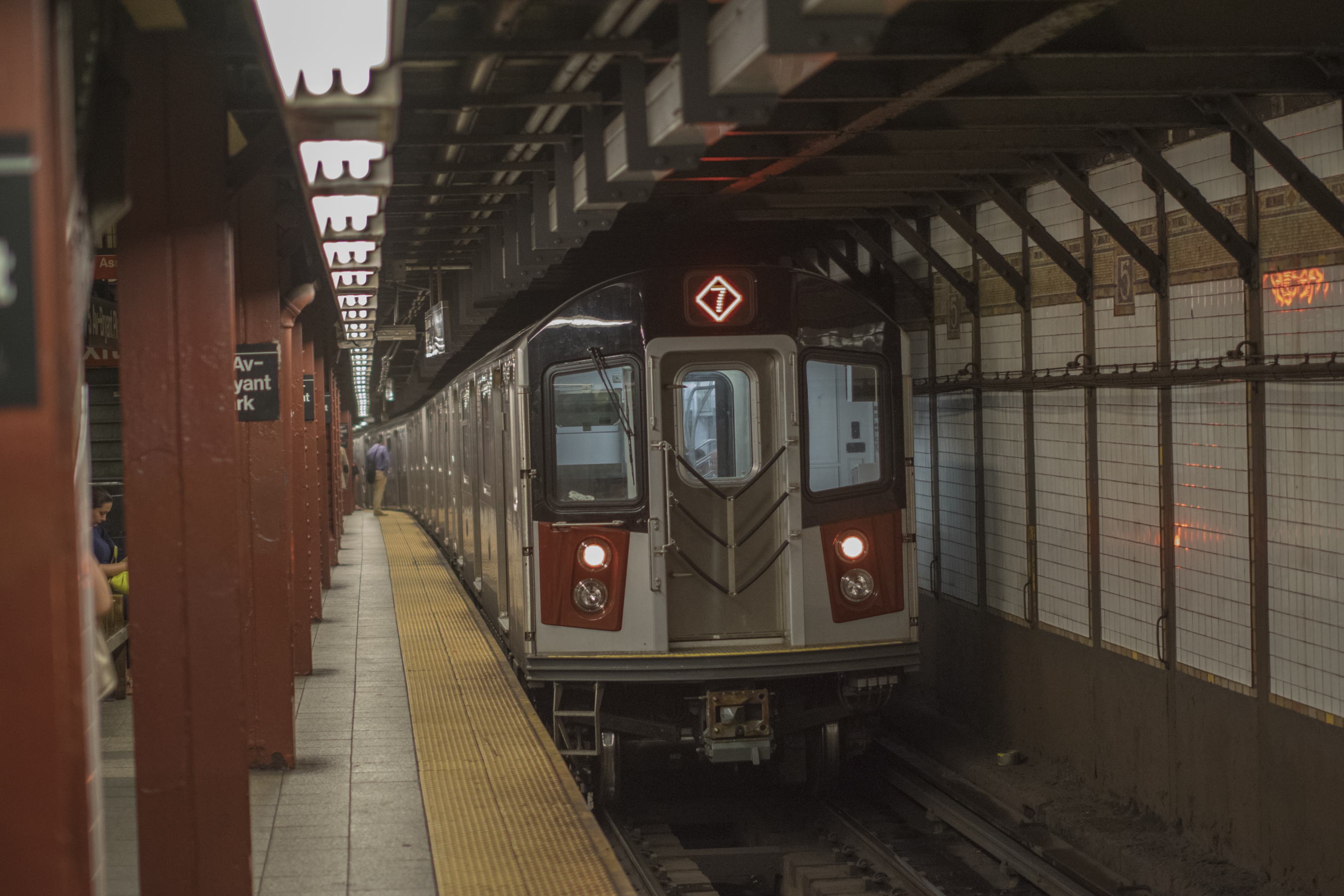 A consist of Kawasaki R188s, many of which are R142As converted to the former, leaving 5th Avenue- Bryant Park on the 7, en route to Flushing- Main Street in Queens.